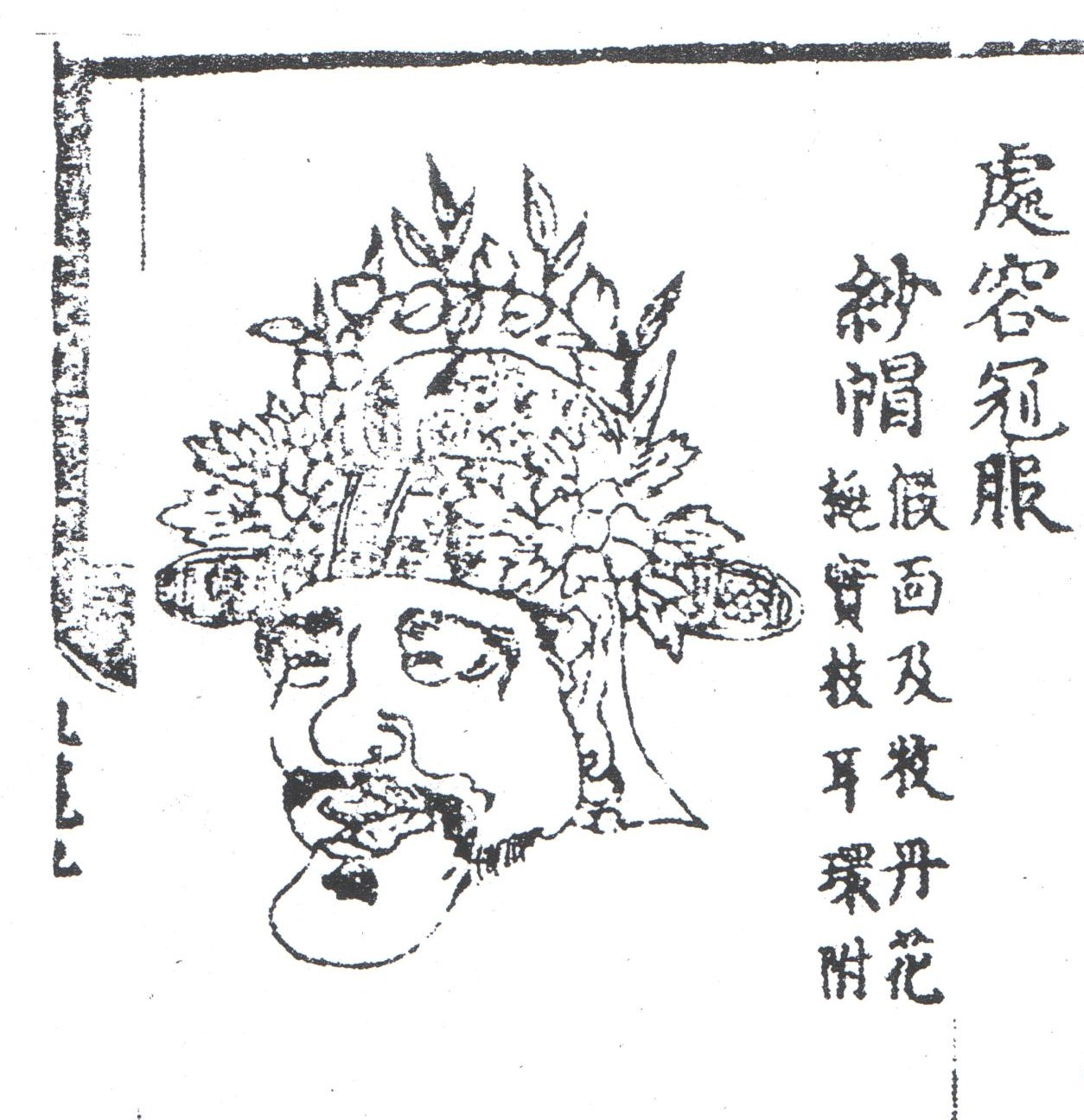 This is an illustration of a mask used in the Cheoyong dance, a Korean court ceremony.